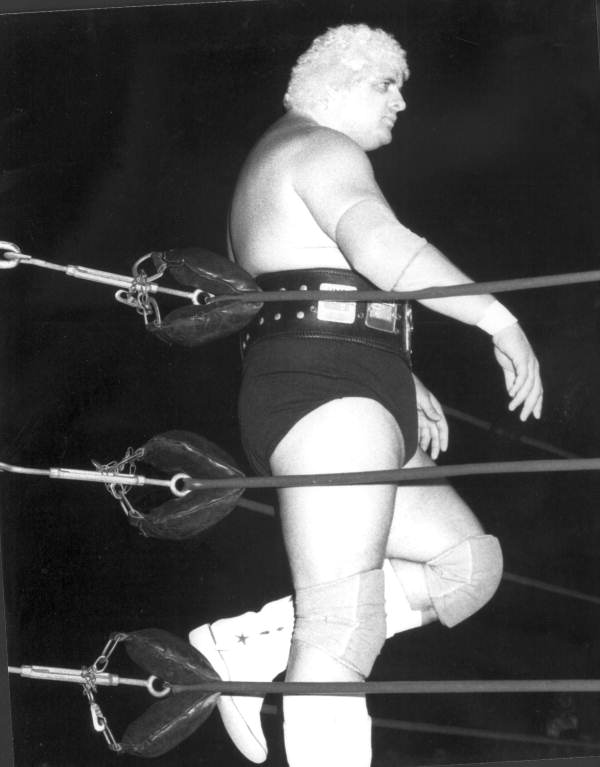 Dusty Rhodes as NWA World Heavyweight Champion